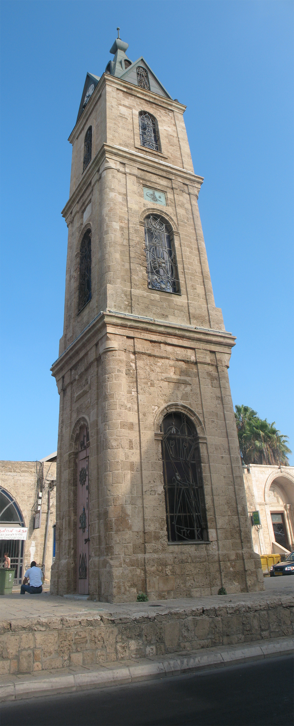 Clock Tower in the Clock Square of Jaffa, Israel